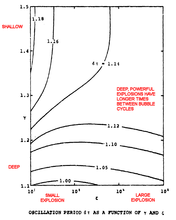 OSCILLATION PERIOD OF BUBBLE CAUSED BY UNDERWATER EXPLOSION AS A FUNCTION OF WATER PRESSURE AND BLAST ENERGY